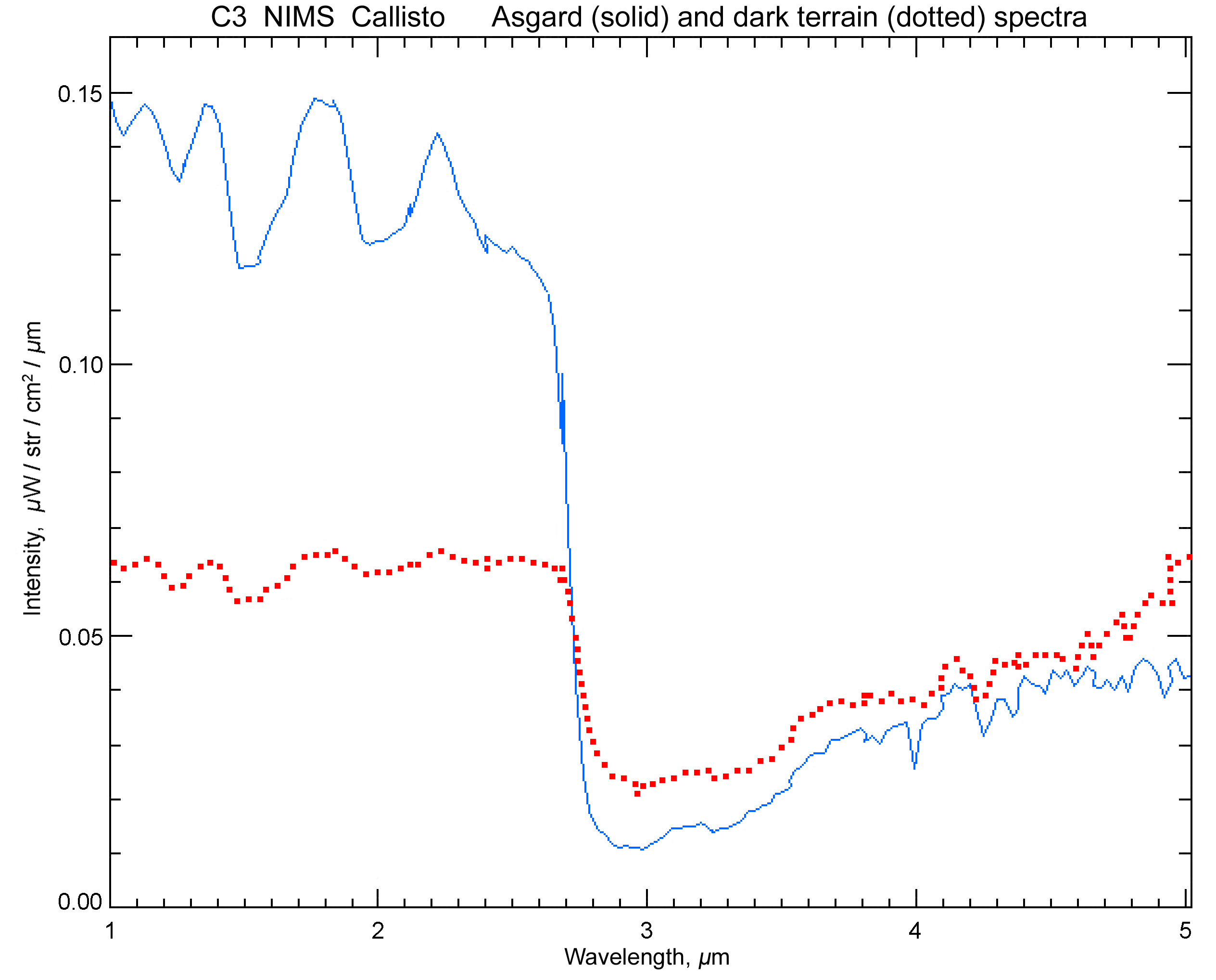 The Near Infrared Mapping Spectrometer (NIMS) acquired this global mosaic (right) at a spatial resolution of 100 km during Galileo's third orbit on November 4, 1996, roughly 7.5 hours prior to Callisto closest approach. The lighter bluish area in the upper latitudes is the Asgard multi-ring structure (the second largest surface feature on Callisto) with crater Burr to the north and Tornasuk to the east. The bluish color indicates regions with more exposed water ice while the reddish/rusty color indicates surface areas rich in non-ice minerals. Compare the two spectra: The Asgard spectrum shows a higher abundance of ice between 1 and 2 microns. The dark terrain spectrum shows more "rocky" material and less ice. The Jet Propulsion Laboratory, Pasadena, CA manages the mission for NASA's Office of Space Science, Washington, DC. The original NASA figure has been modified by inverting white and black, tripling the linear dimensions of the dots in the dark terrain spectrum, coloring these dots red, coloring the Asgard spectrum line blue, increasing the linear pixel density of the image by a factor of 4, and changing the text and numerals to a larger size (Arial) font.